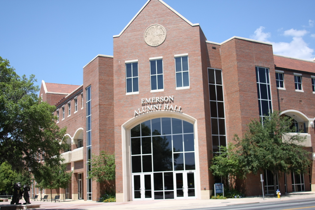 Emerson Alumni Hall at University of Florida